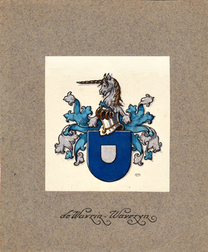 Coat of arms of the Waverin family.